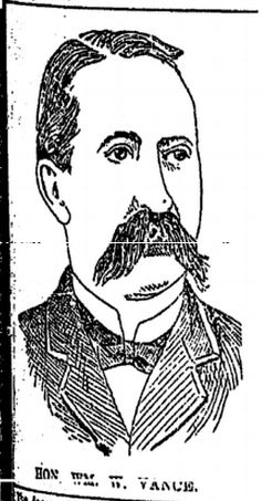 Sketch in a Baton Rouge newspaper of former state Senator William Washington Vance of LA